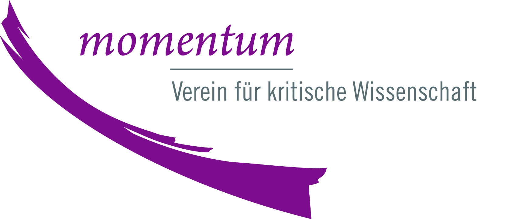 Logo of the annual scientific conference "Momentum" in Hallstatt, Upperaustria, Austria.